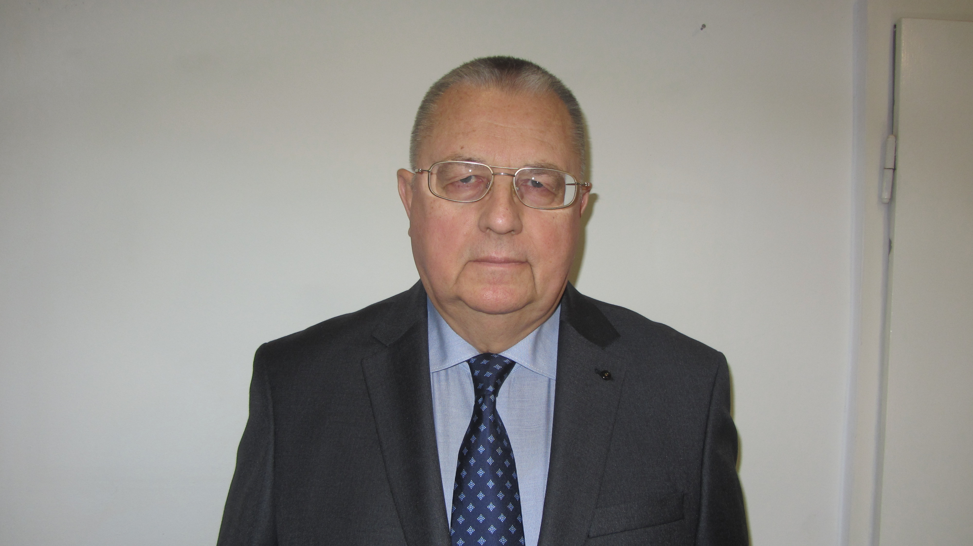 Professor Dr. Nikolai Genov